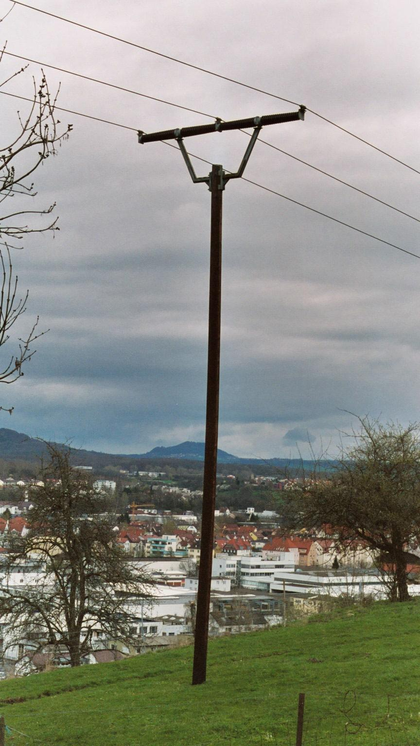 Portra Pylon in Göppingen, Germany. Temporary use of wood poles on a short section/remnant of the old Obertürkheim–Niederstotzingen 110 kV power line. (This pylon does not exist any more.)